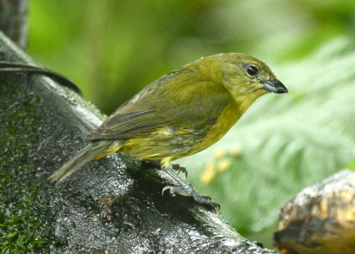 Isador Ristorant - Los Bancos, Ecuador